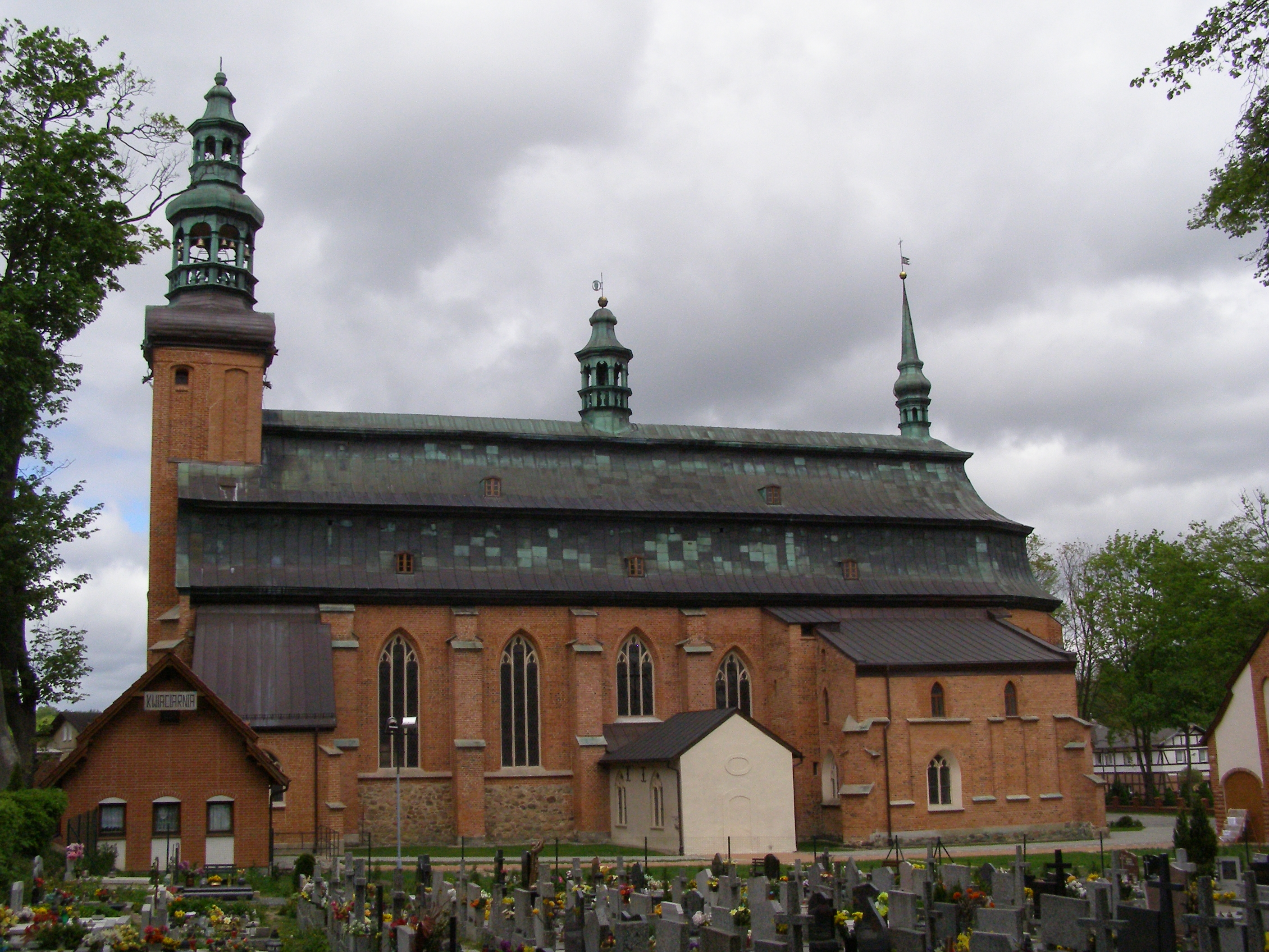 Kartuzy - church of the Assumption of Virgin Mary